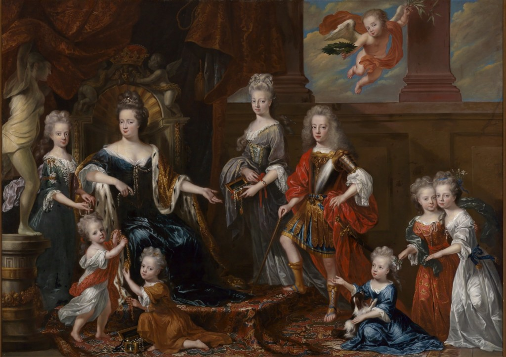 Depicted people: Henriëtte Amalia of Anhalt-Dessau, Princess of Nassau-Dietz (1666-1726) John William Friso, Prince of Orange (1687-1711) Henriëtte Albertine of Nassau-Dietz (1686-1754) Maria Amalia of Nassau-Dietz (1689-1771) Sofia Hedwig of Nassau-Dietz (1690-1734) Isabella Charlotte of Nassau-Dietz (1692-1757) Johanna Agnes of Nassau-Dietz (1693-1765) Louise Leopoldina of Nassau-Dietz (1695-1758) Henriette Casimira of Nassau-Dietz (1696-1738)